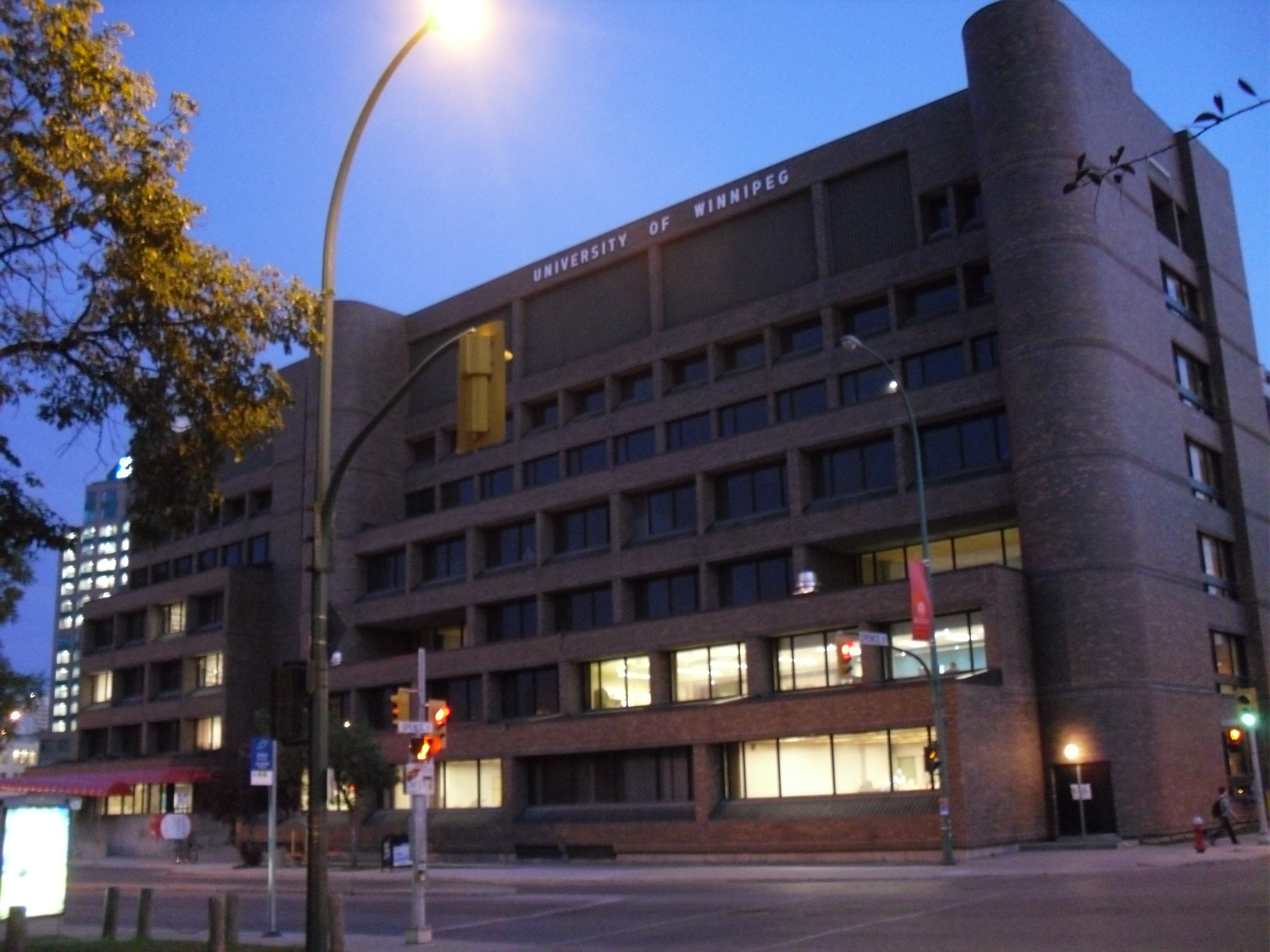 A view of the University of Winnipeg from the North, or from Ellice Avenue.